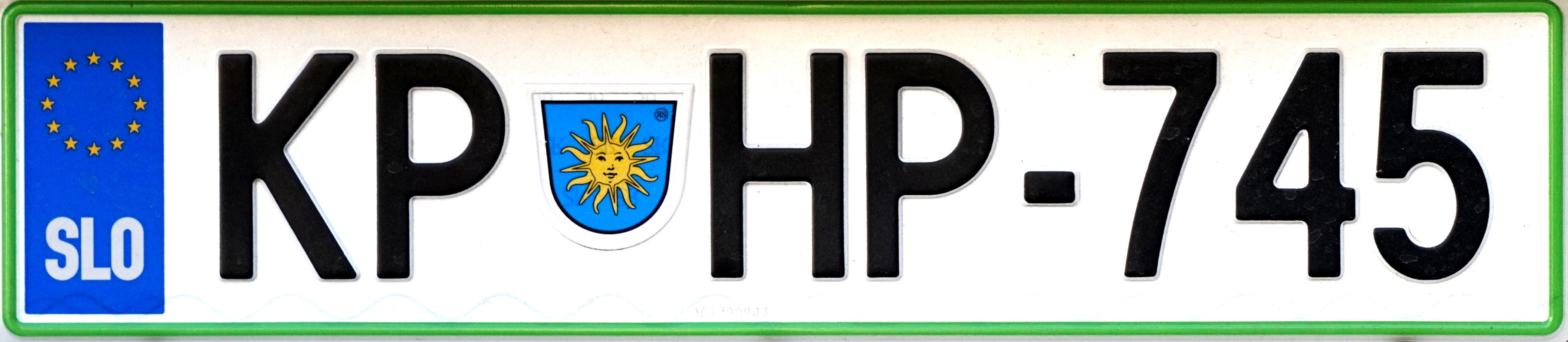 Slovenian license plate with the sticker of Koper administrative unit.